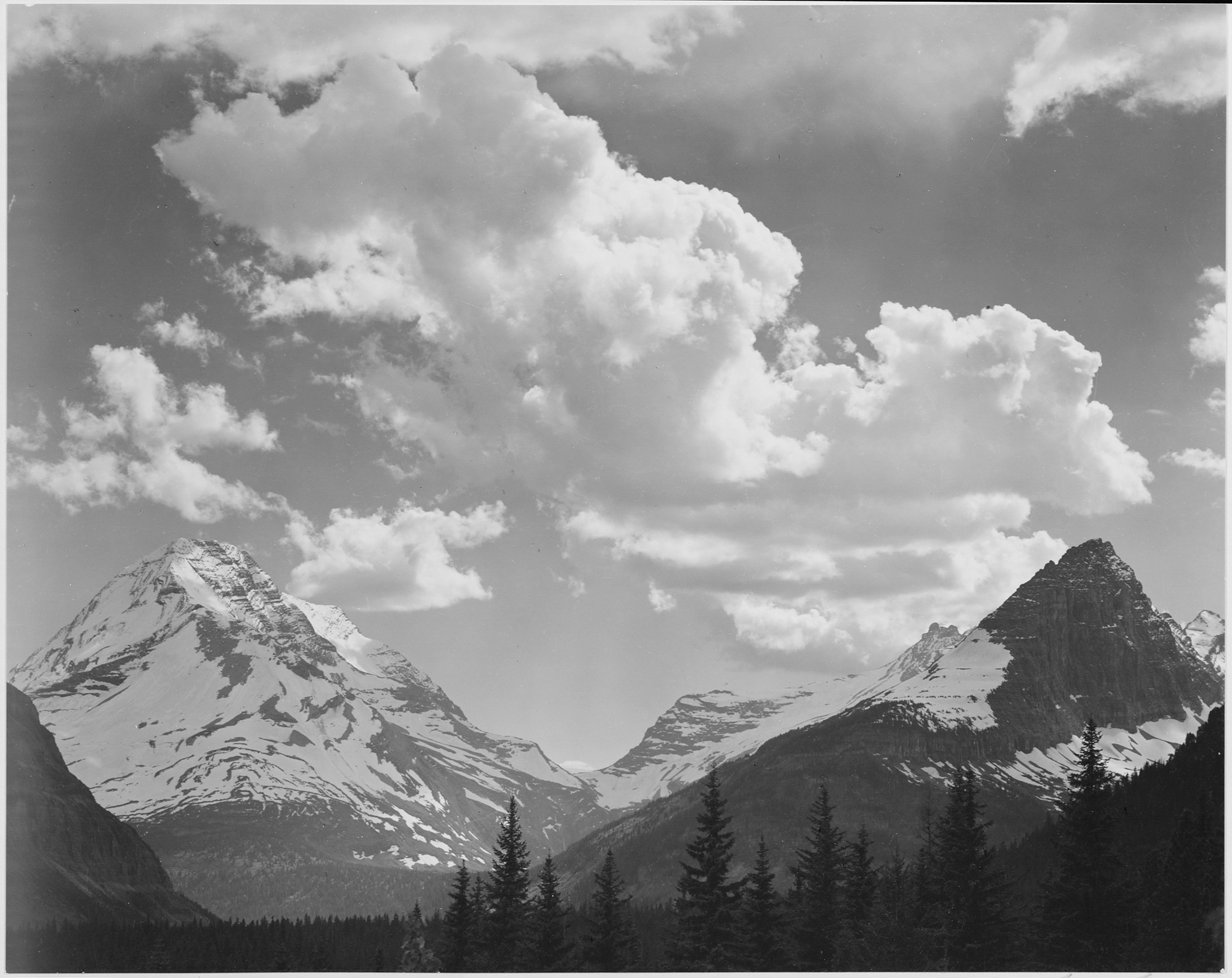 General notes: Nearly identical to item NWDNS-79-AA-E13.